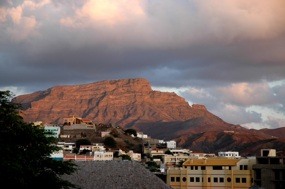 The highest point of Sâo Vicente island in Cape Verde - Monte Verde approximately 700 m a.s.l. View from Mindelo. Photograph taken by Henryk Kotowski in November 2005.